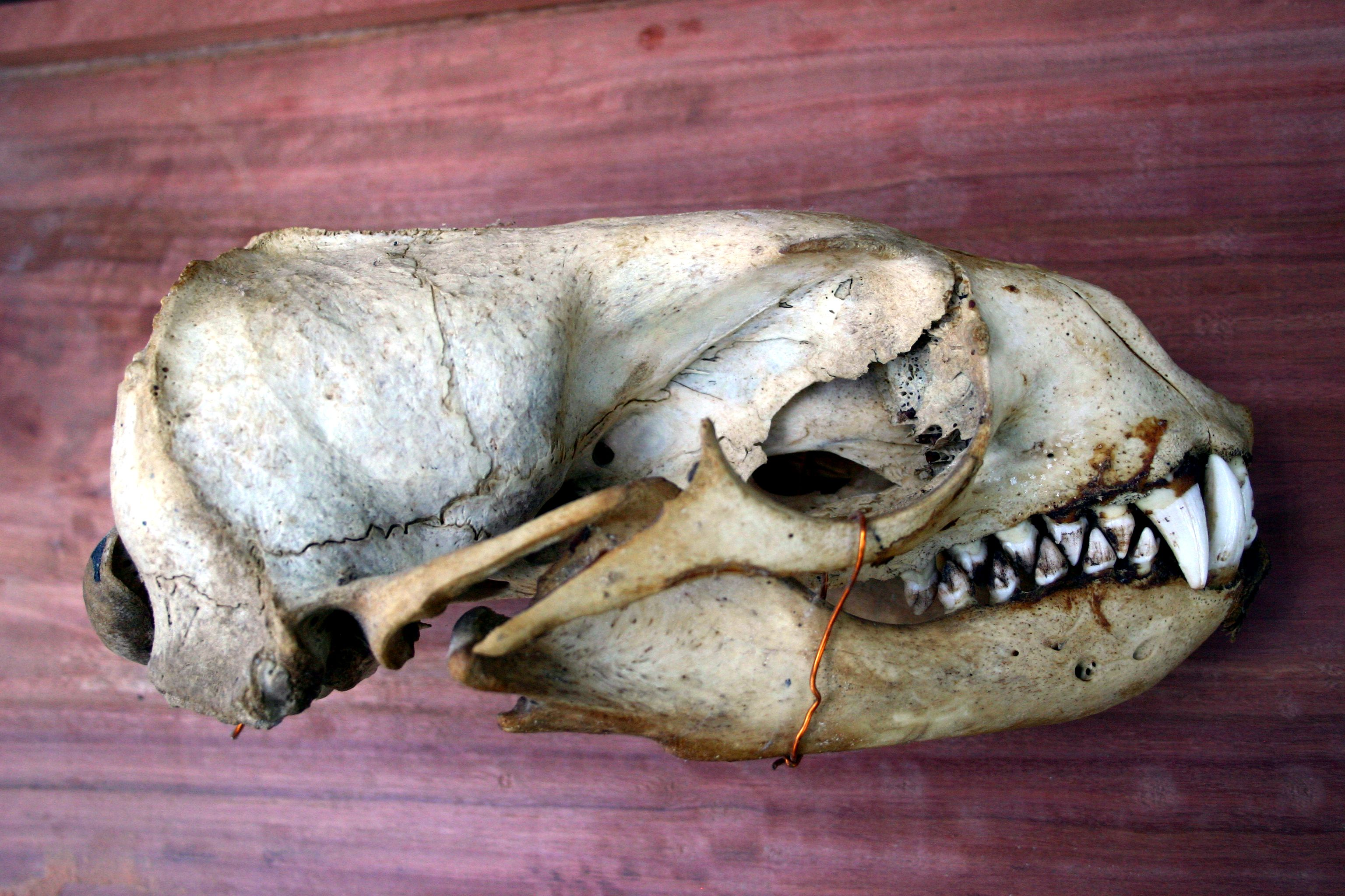 Side view of male Brown Fur Seal skull from Cape Cross, Namibia